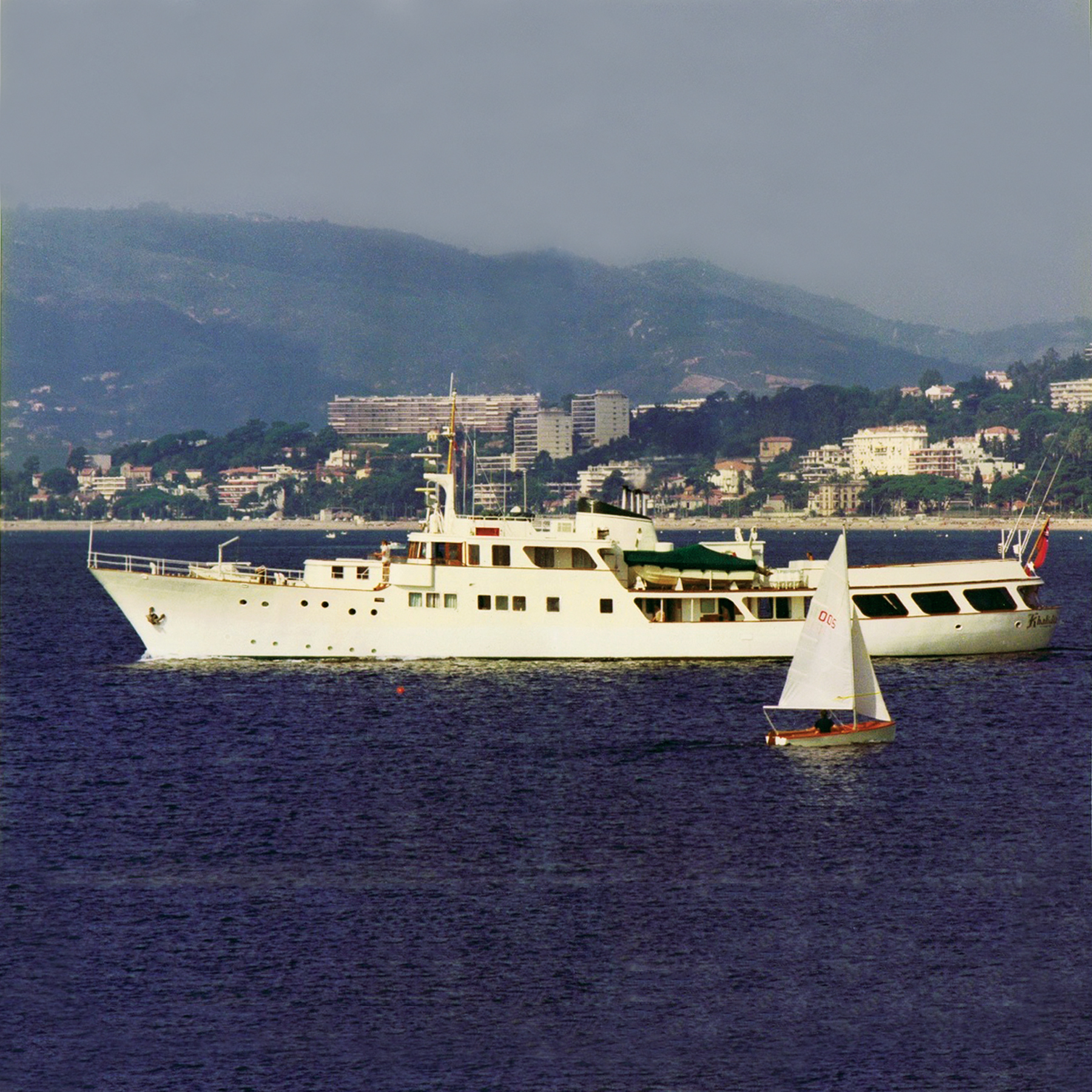 Adnan Khashoggi Khalidia Yacht